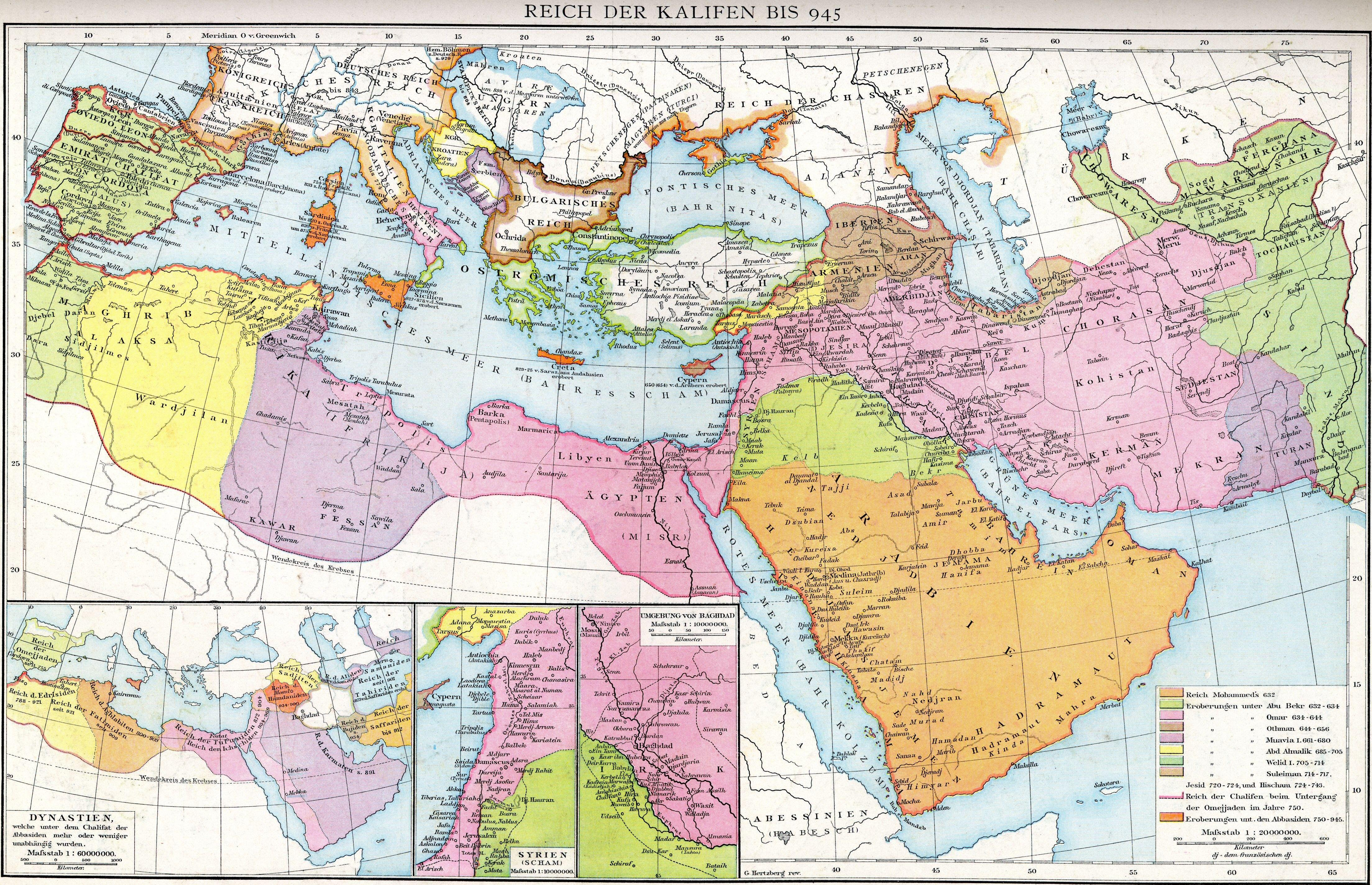 The empire of the Caliphs until 945. (Map of the Historical Atlas of Gustav Droysen, 1886)